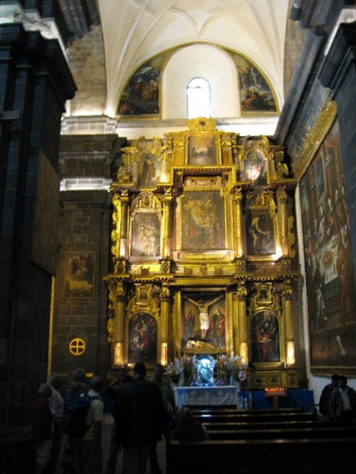 Interior view